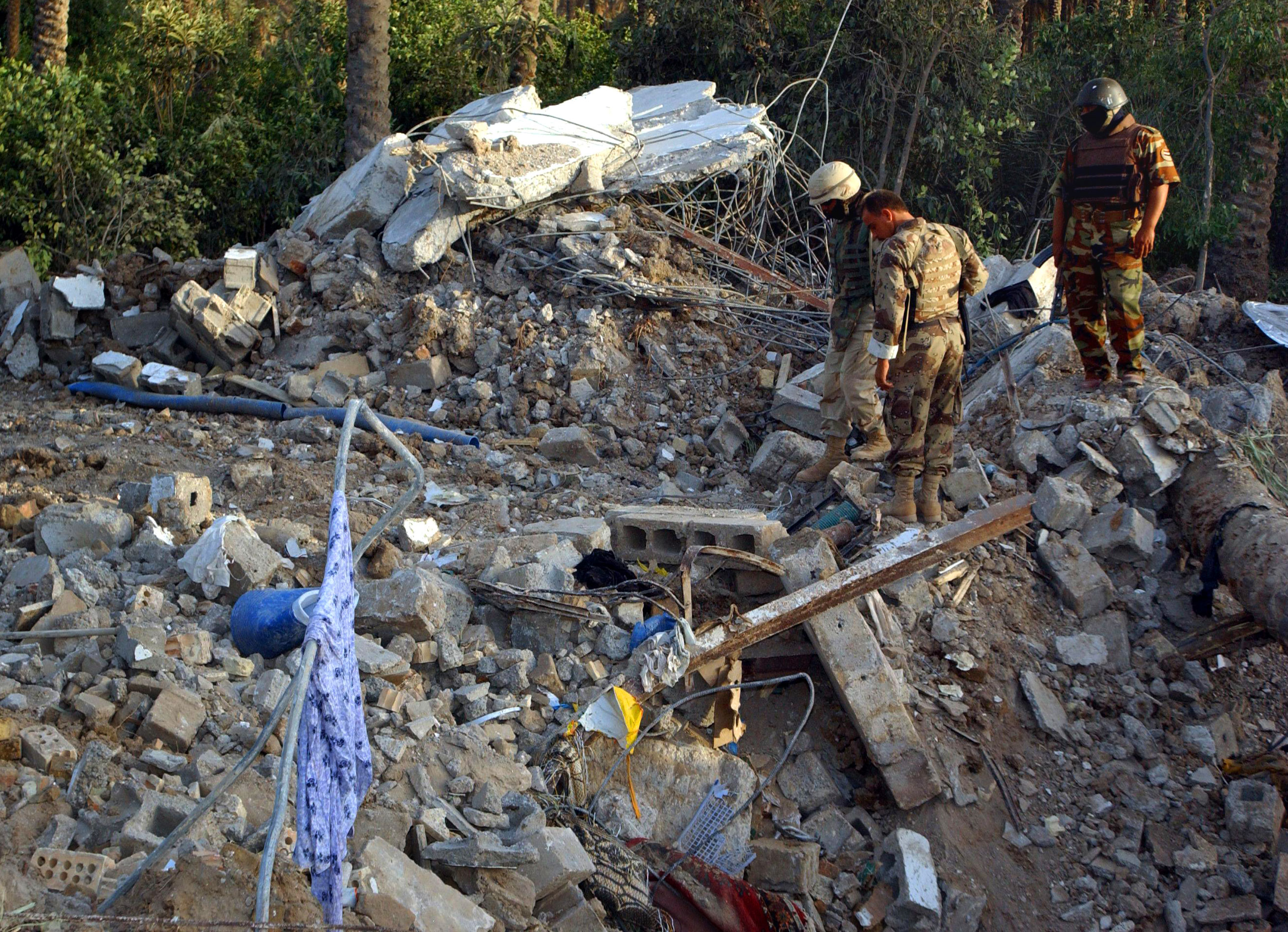 Rubble and debris litter the site of the last safe house of Abu Musab al-Zarqawi in Hibhib, Iraq. The top insurgent target in Iraq, along with several of his associates, was killed during an air strike on the house June 7, 2006.